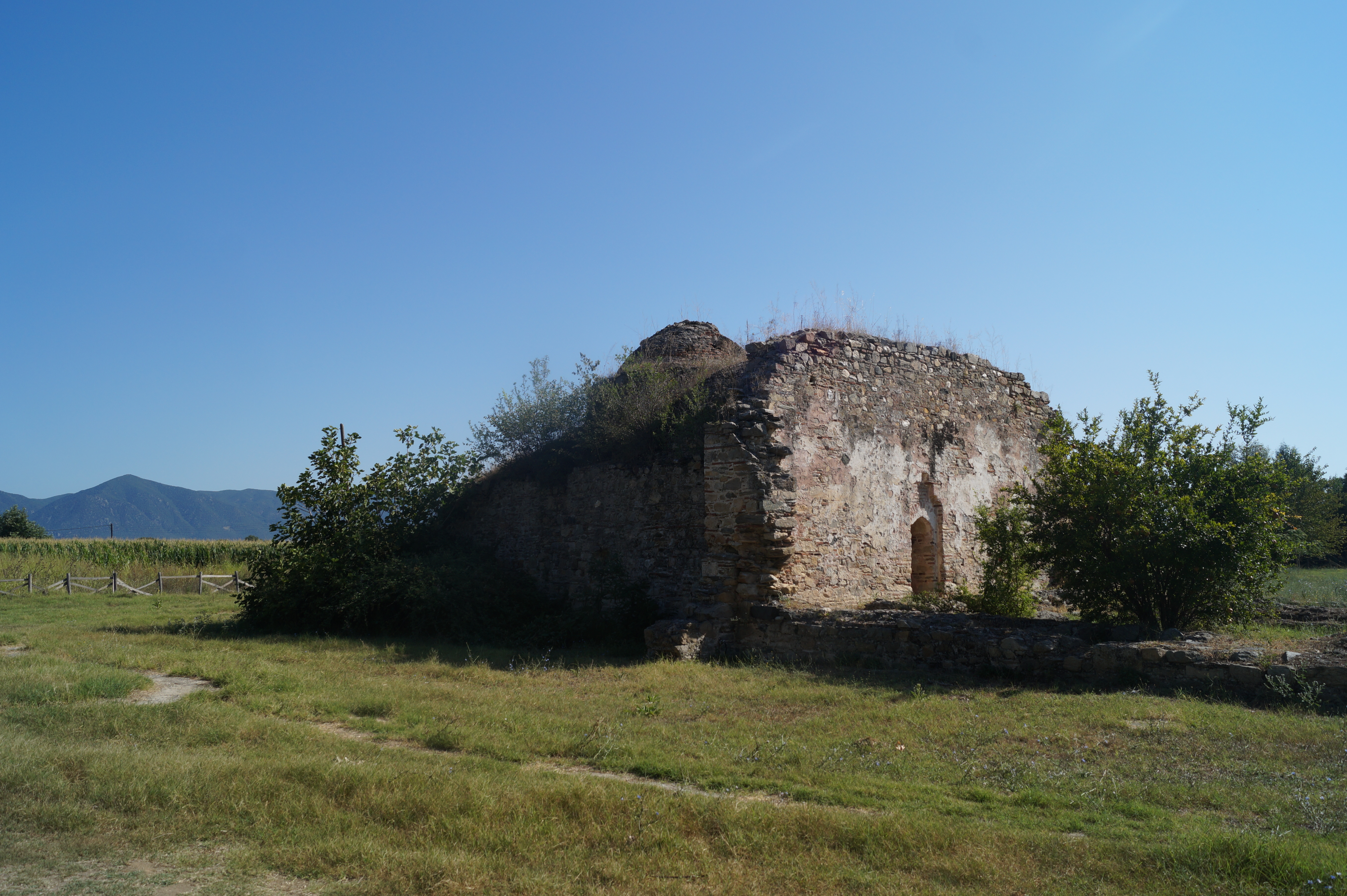 Apollonia, Makedonia, Greece: Ottoman bath (16th century)